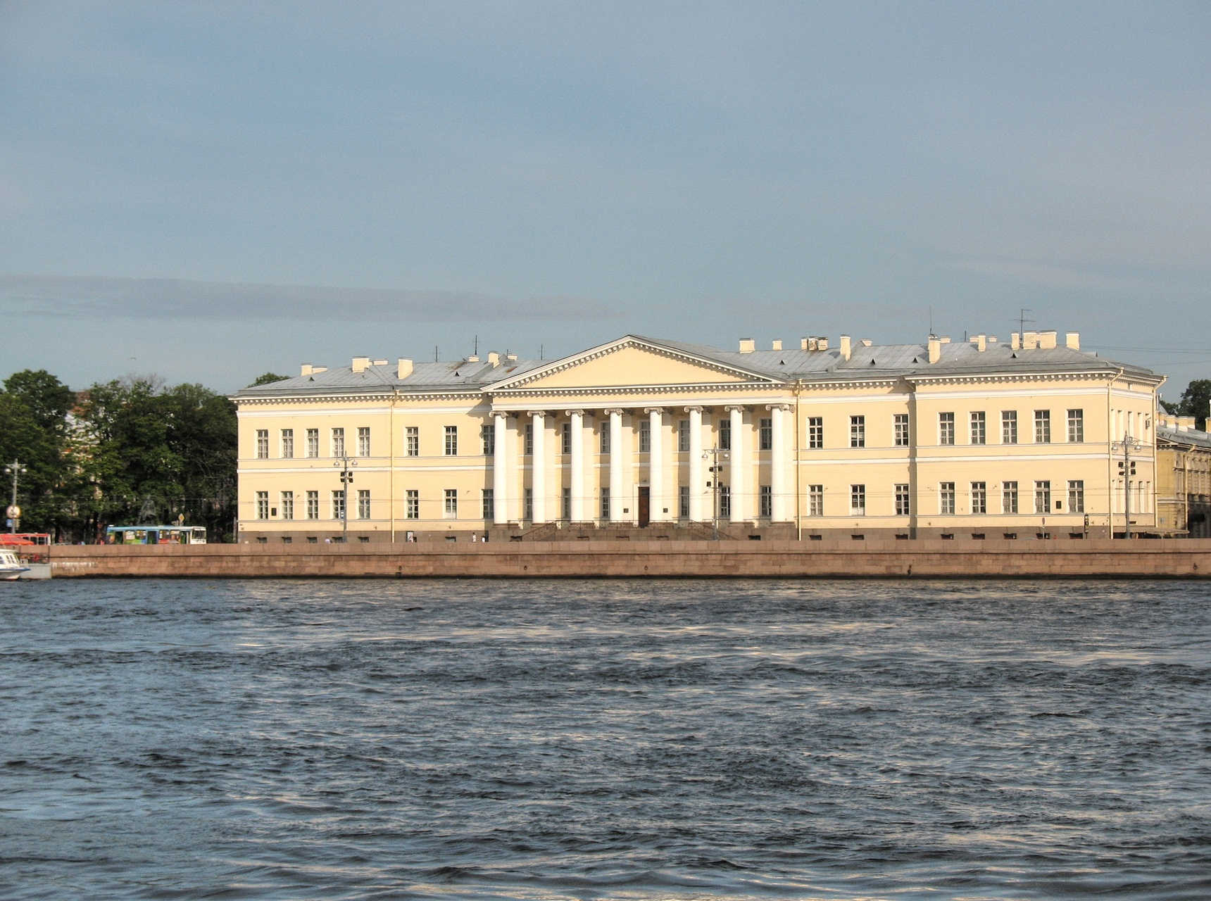 Saint Petersburg. Building of Russian Academy of Sciences